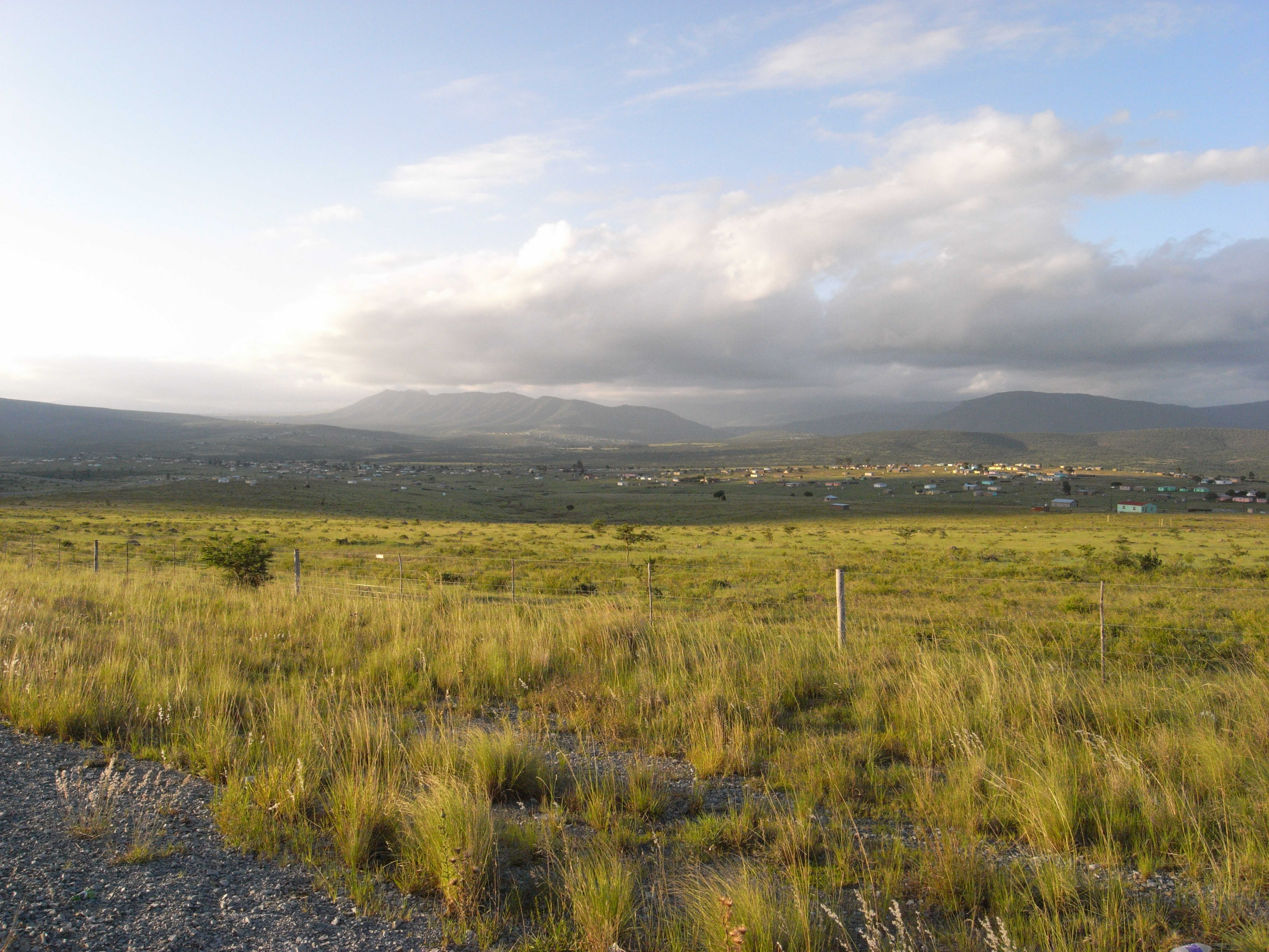 settlement in former homeland Ciskei, the Amathole Mountains in the background (South Africa) between Middledrift and King William's Town